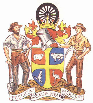 Bathurst City Coat of Arms were granted on September 6, 1960. The arms represent the gold mining period and the later settlement of the land with a miner holding a shovel and a farmer with a sickle. The emu and kangaroo represent native animals common in the region and the Hereford cattle and Merino sheep the agricultural activity suited to the area. The railway wheel represents the major railway centre that Bathurst had become. The Latin inscription reads in English 'the public safety is my reward'